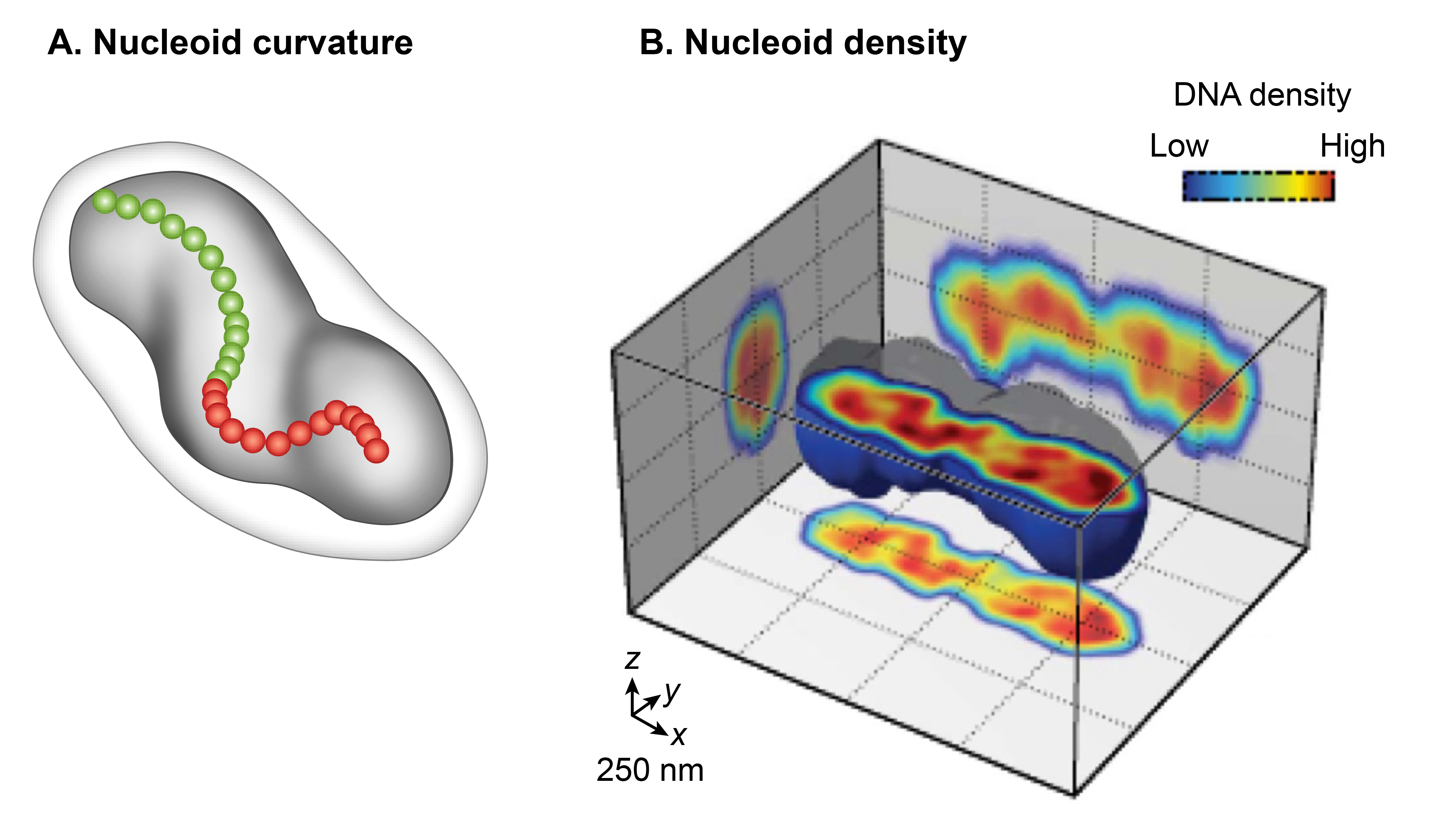 Nucleoid as a helical ellipsoid with longitudinal high-density DNA regions A. A cartoon of E. coli cell with a curved nucleoid(dark grey). A curved centroids path, denoted by red and green dots, emphasizes the curved shape of the nucleoid. The cartoon is based on a figure in [8] B. Cross-sectioning of the E. coli nucleoid visualized by HU-mCherry. Fluorescence intensity is taken as a proxy for DNA density and is represented by blue to red in increasing order. Data were taken from.[9]